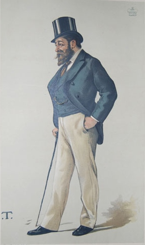 Caricature of John Henniker-Major, 5th Baron Henniker. Caption read "a man of business".